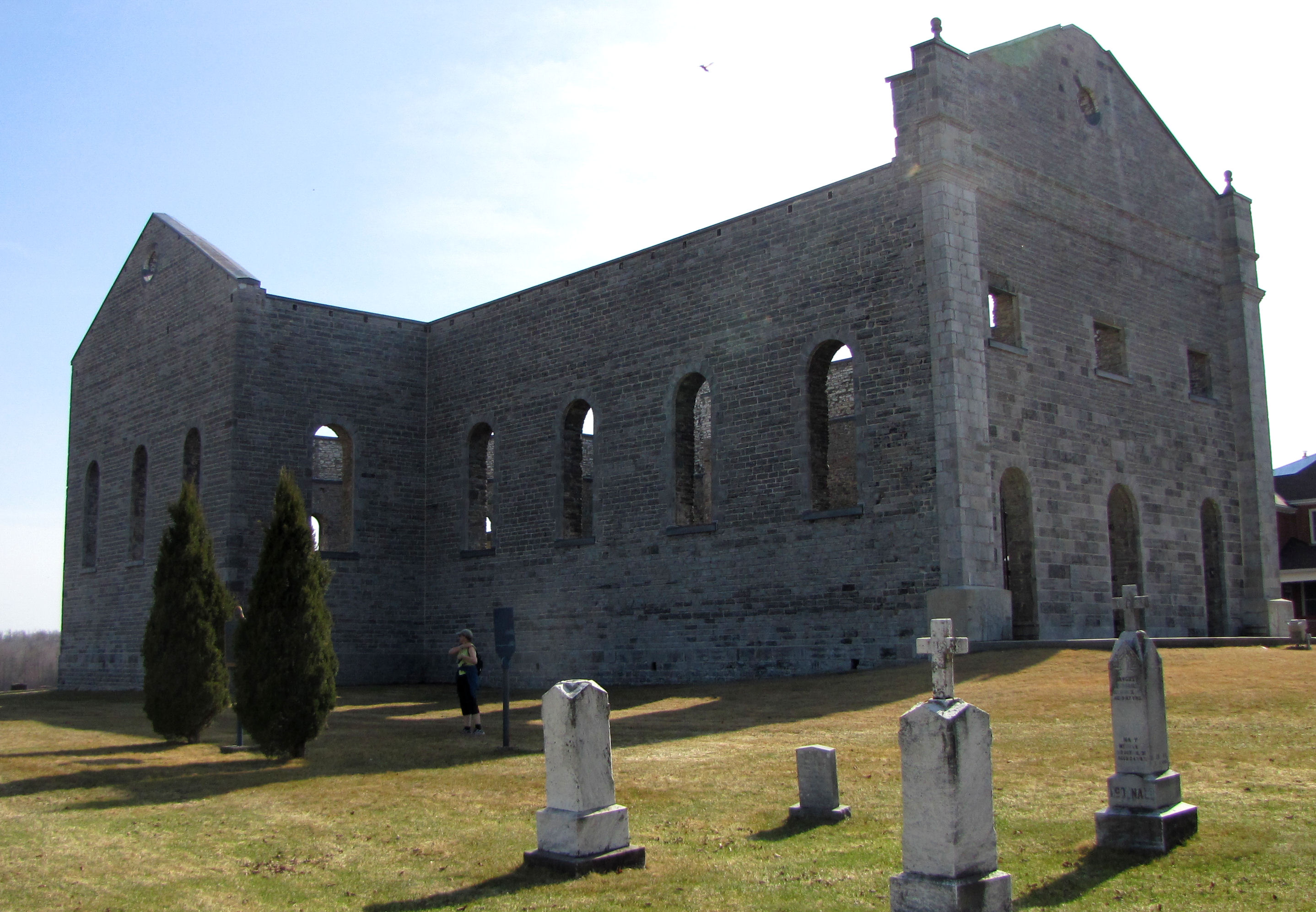 Ruins of St. Raphael's Church, South Glengarry, Ontario, Canada. Built in 1821. Burned in 1970.